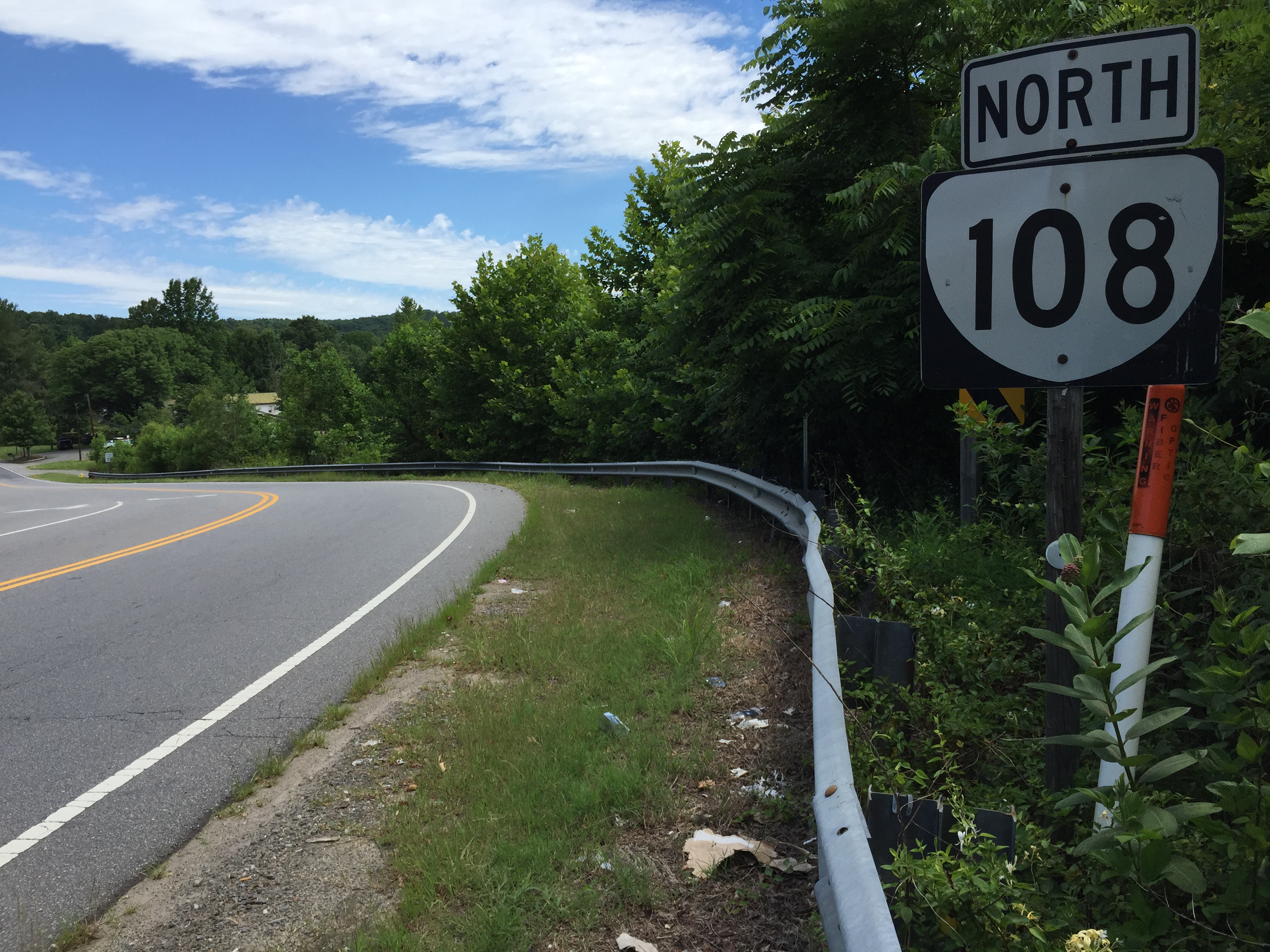 View north along Virginia State Route 108 (Figsboro Road) at Virginia State Route 174 (Kings Mountain Road) just northeast of Collinsville in Henry County, Virginia